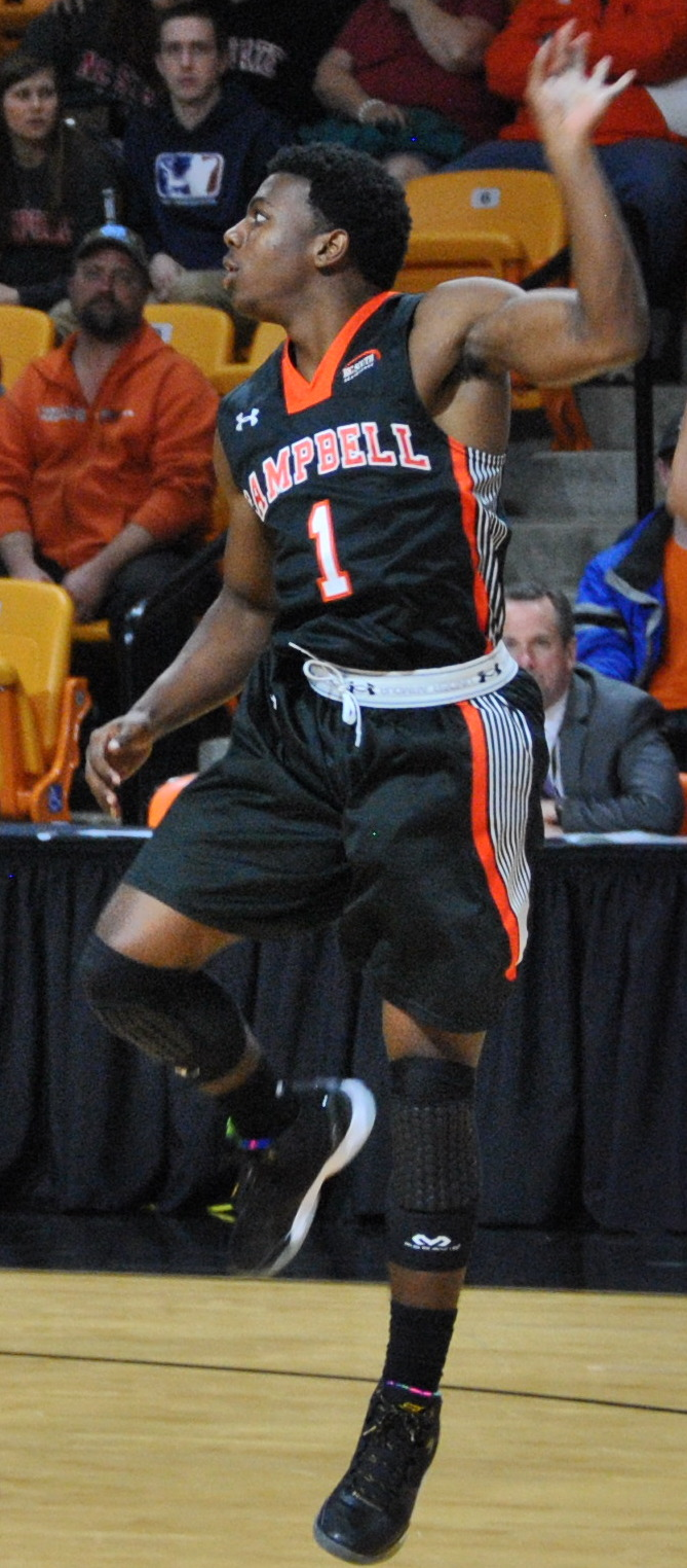 Game 3 of the 2016 Big South Tournament saw the Garner Webb Bulldog defeat the Campbell Camels 79-69 to advance to the quarter finals